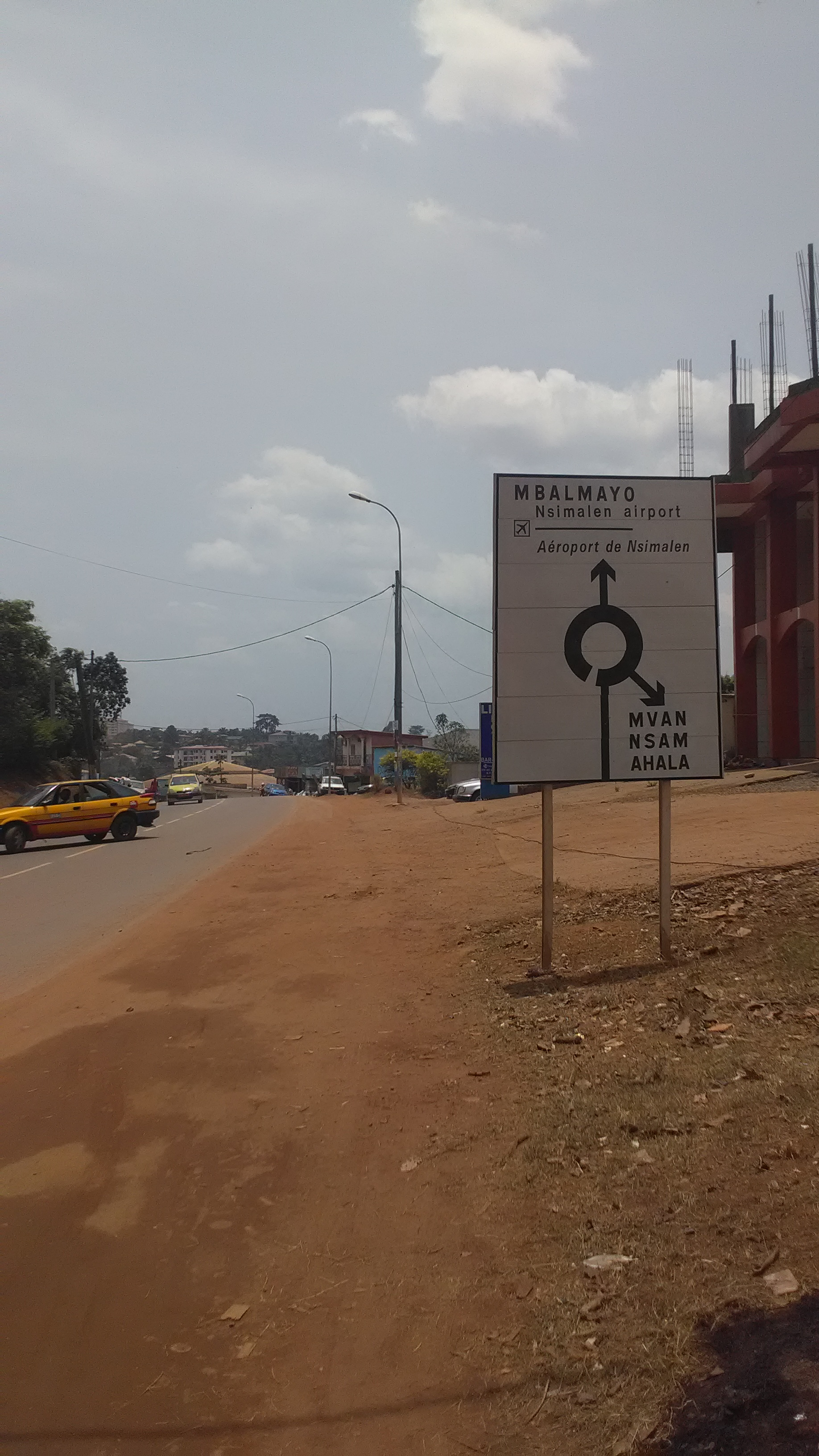 This is an image with the theme "Africa on the Move or Transport" from: Cameroon